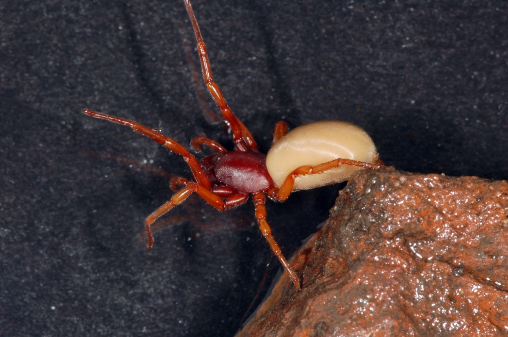 Dysdera erythrina, Nied, Frankfurt/Main, Germany